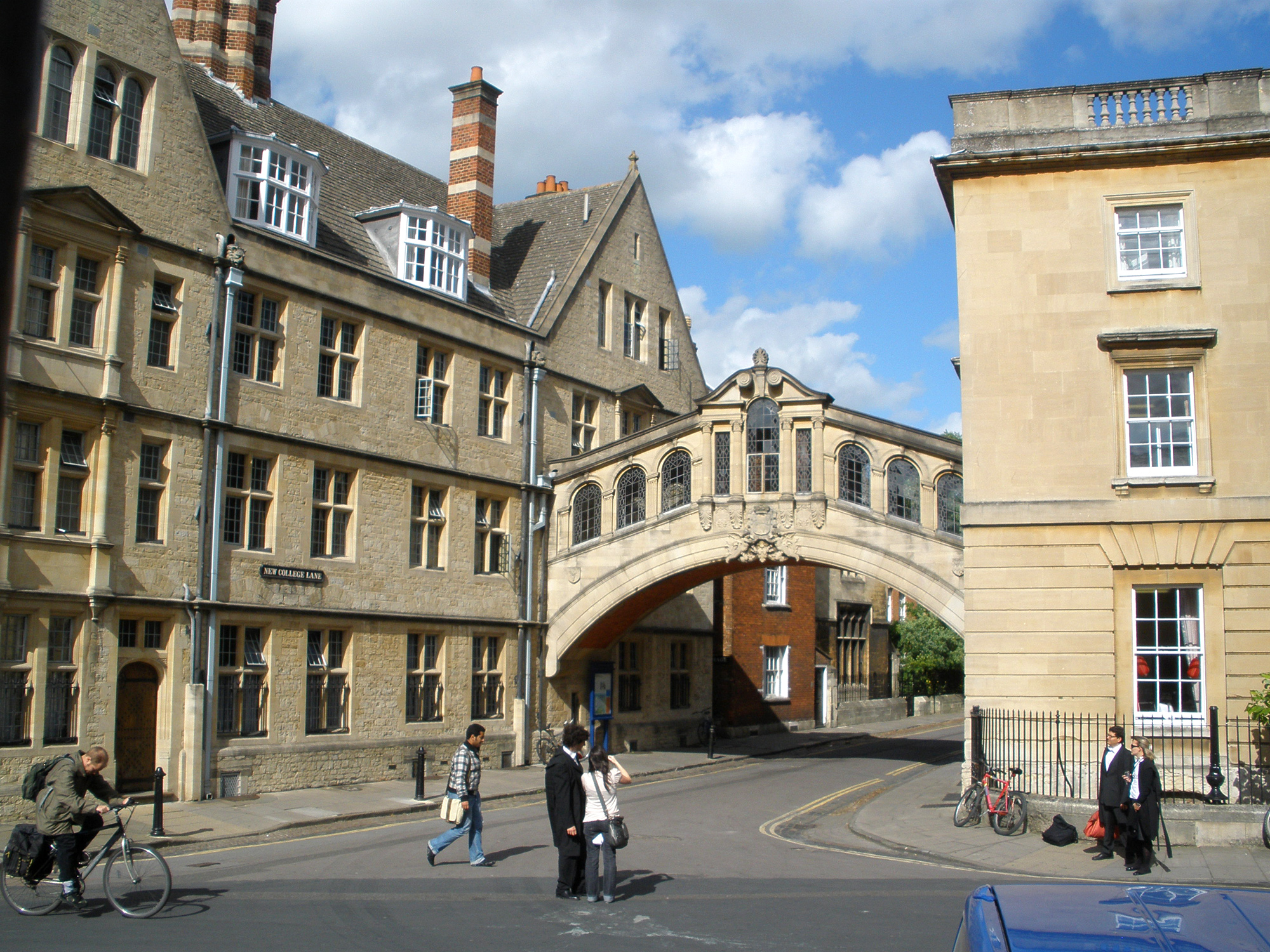 New College Lane in Oxford, England with the Bridge of Sighs